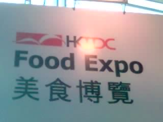 HKTPC Food Expo 2010